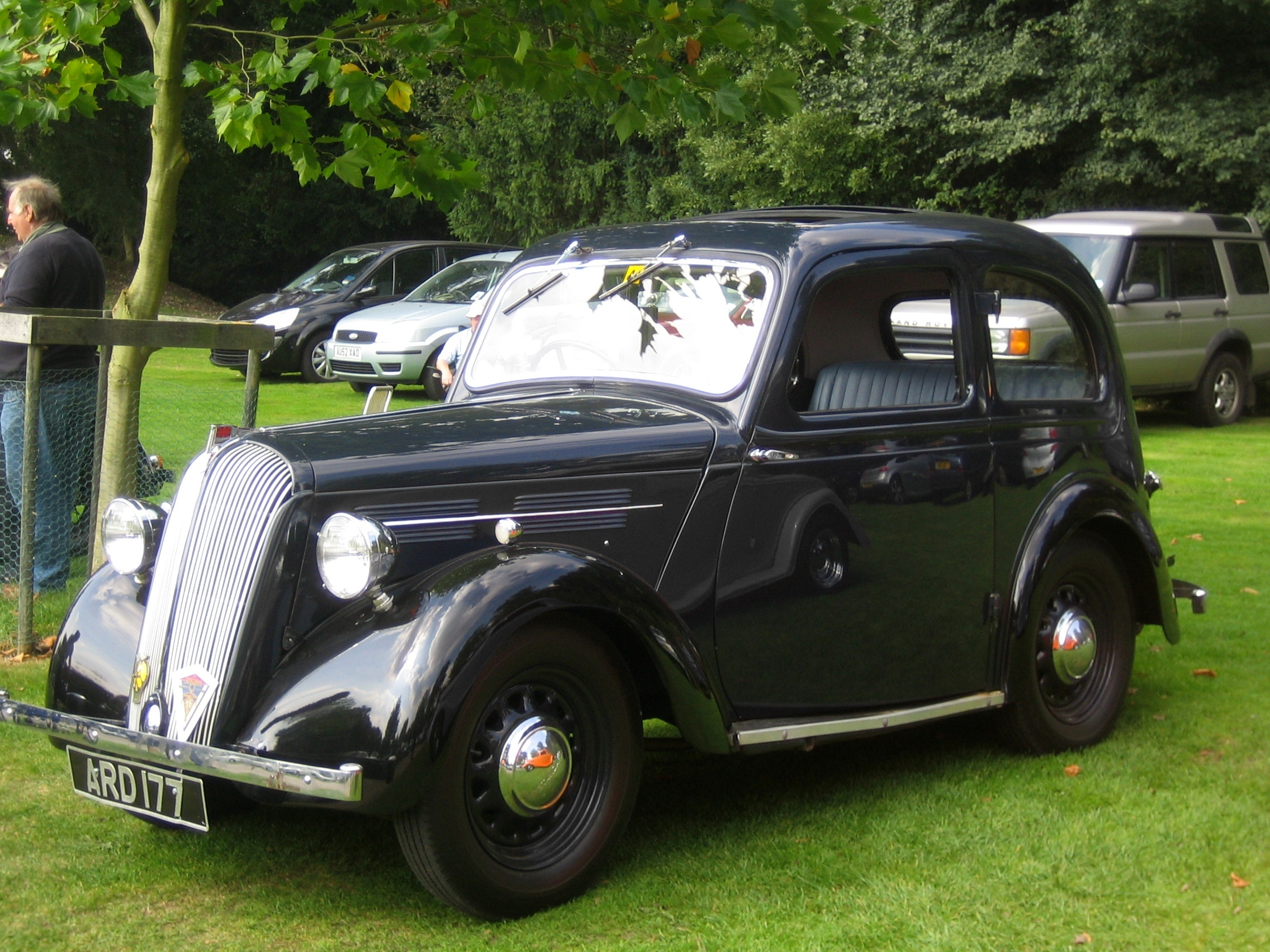 Standard Flying Nine with lamentable reflection of very orange funny car next to it.